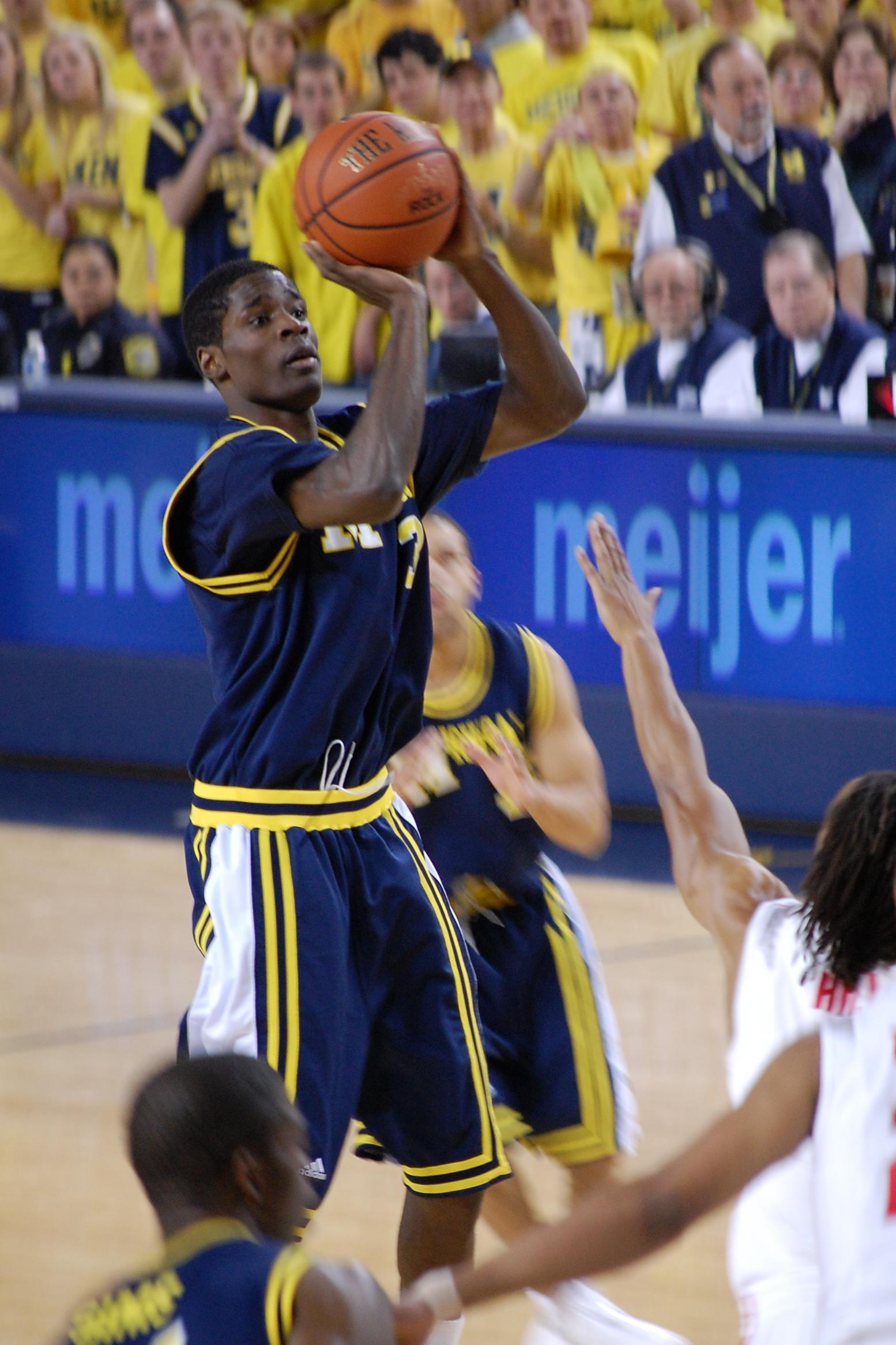 Manny Harris